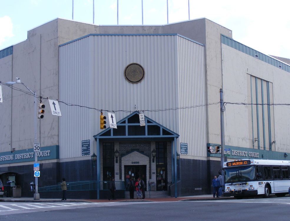 Eastide Dist. Court at North Ave.